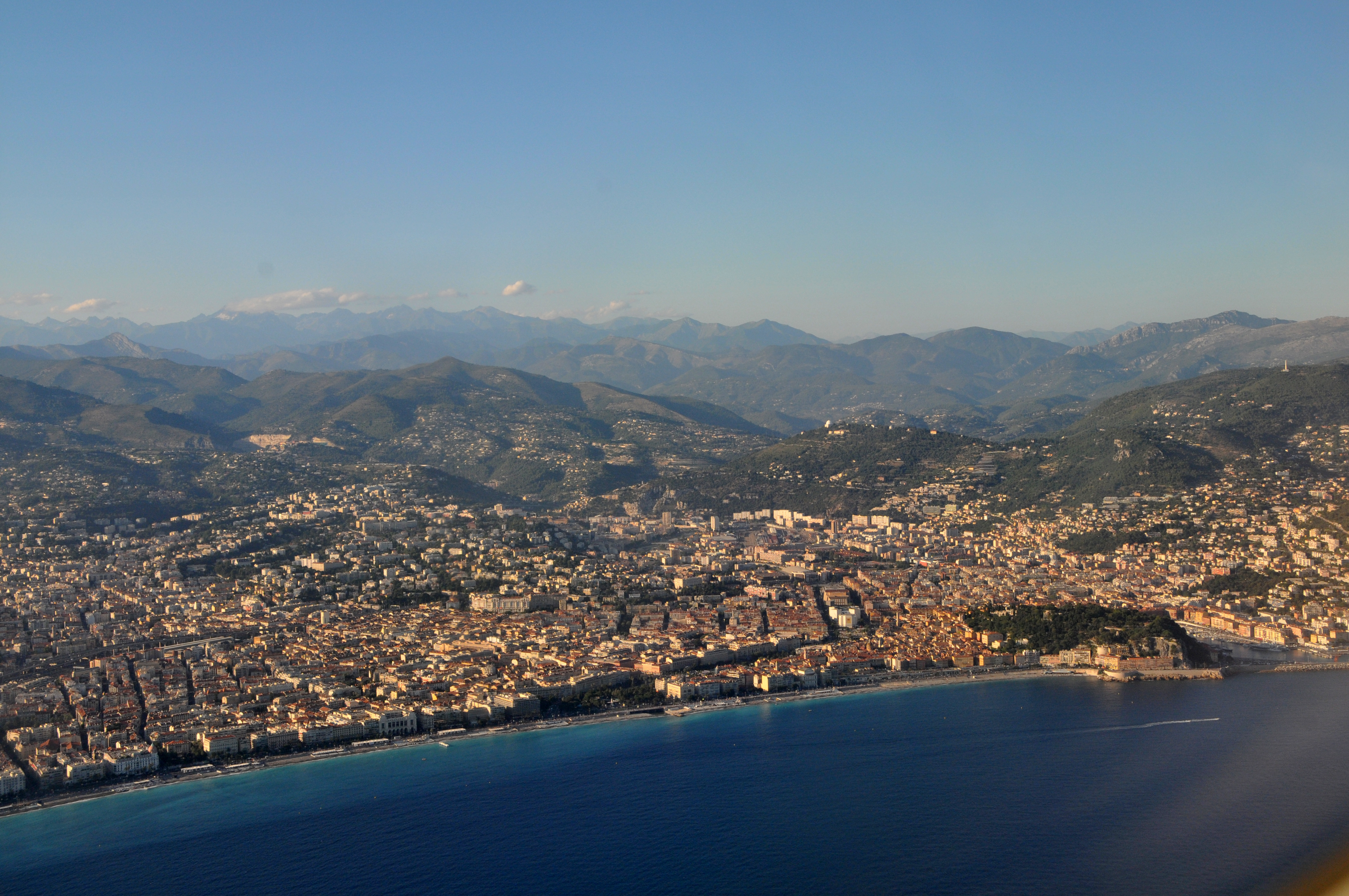 Aerial photograph of Nice, France.